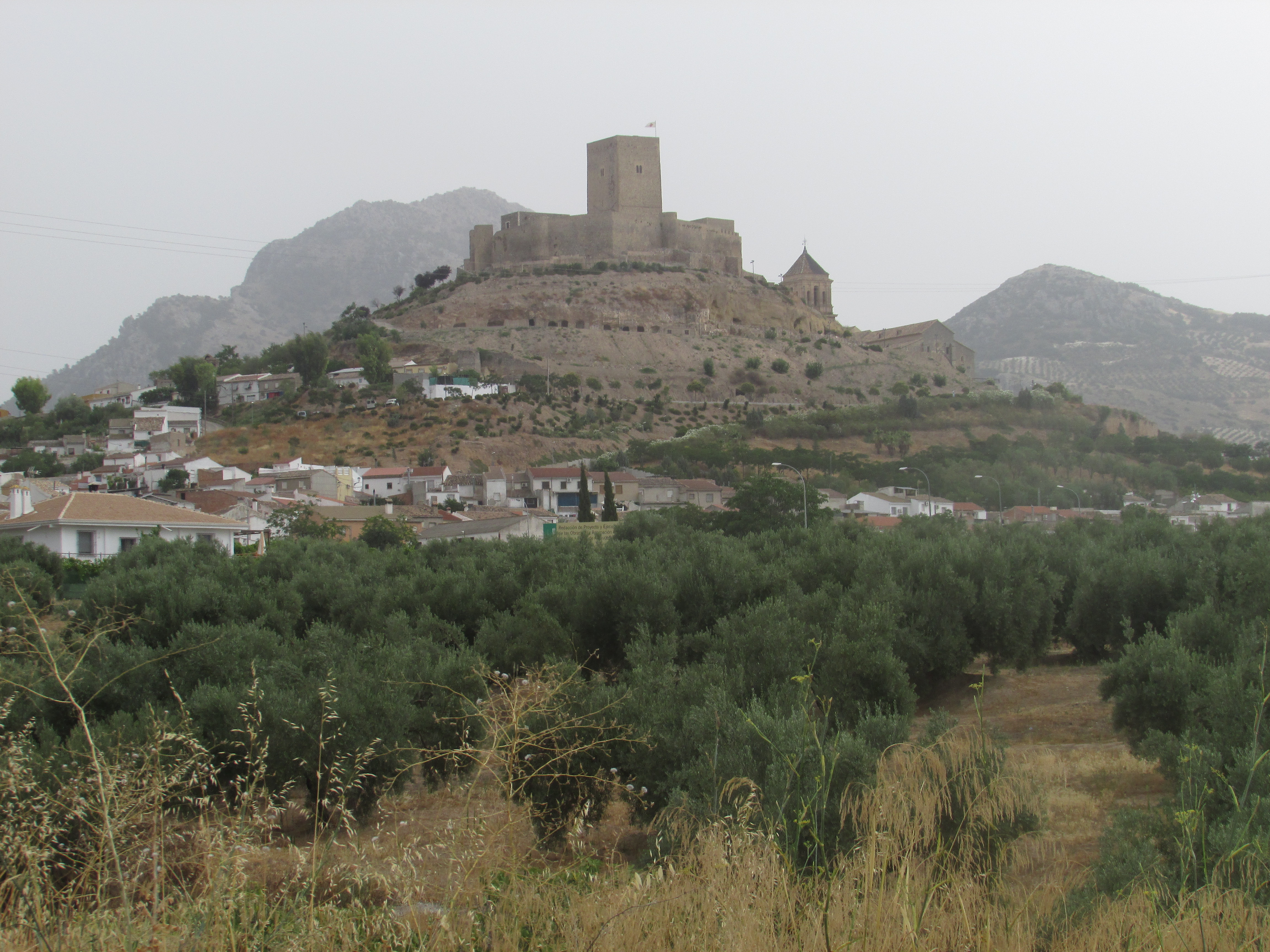 Looking from the west towards the Castle of Alcaudete (Castillo de Alcaudete ) in the town of Alcaudete, Jaén, Andallusia, Spain. See also: Castles in Spain.